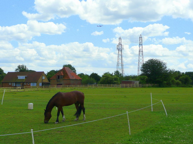 Paddock land at Middlegreen The horse appears undisturbed by the planes taking off from Heathrow nearby.